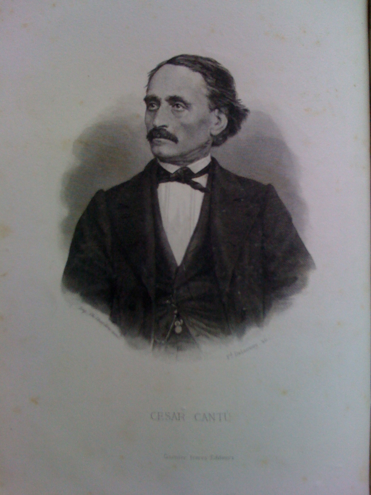 Catú engraving in his book Caesar World History, Spanish edition Unica complete library Garnier Paris Brothers 1881